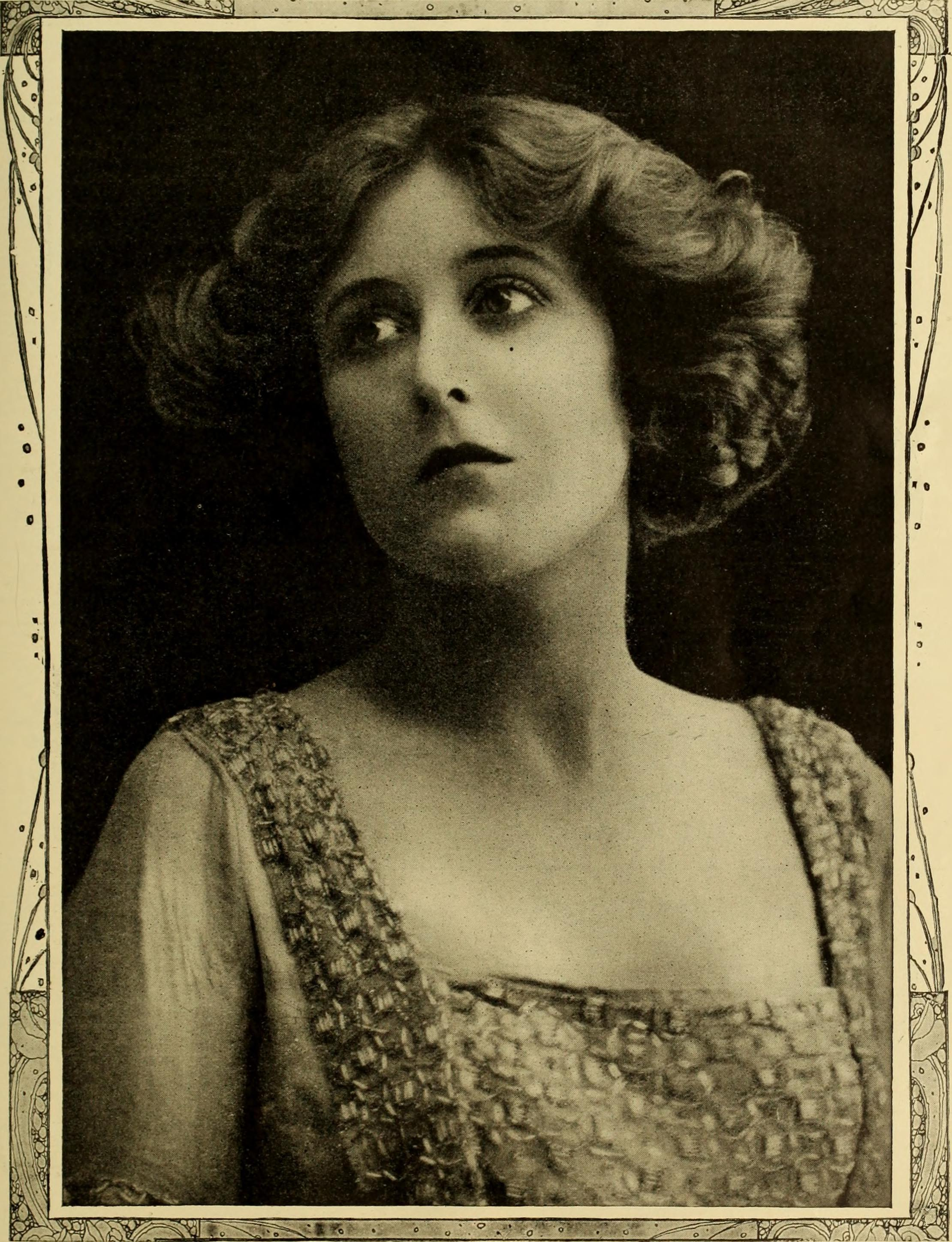 Miss Gladys Sylvani, The most photographed actress in the Picture Theatre world, 1912 Title: Cinema News and Property Gazette (1912) Year: 1912 (1910s) Authors: Cinema News Subjects: Motion Pictures Film Industry Trade Magazine nyarc-museumofmodernart Publisher: London Text Appearing Before Image: he soon be himself again, renewedin health and strength, to go on developing the wonderful processwhich he has made his own. A Word in Conclusion. A word in conclusion The Royal Party came and went withoutceremony. At the Scala Theatre they were received by Dr. EDi-tin Maddick, and the Royal box, designed by Mr. Frank Verity,F.R.I.B.A., the architect of the theatre, was so arranged as tocreate the impression that the visitors were seated under the samecanopy as at the Durbar. The colour scheme of the interior waspale biscuit; the roof was supported by bronze columns, and thewhole was draped with a crimson valance, and decked with aprofusion cf flowers and plants. As the Royal party left at theclose of the performance and one made ones way out again intothe drab surroundings of Tottenham Court Road, the beautifulscenes of the Durbar floated away—away—away ! But thememory of the evening with the King at the Pictures remains. D. L. W. June, 1912. THE CINEMA. 15 A Pifture Palace Star. Text Appearing After Image: Hepworth, PhDto. MISS GLADYS SYLVANI.The most photographed Aclrsss in the Picture Theatre world. 16 THE CINEMA. June, 1912.